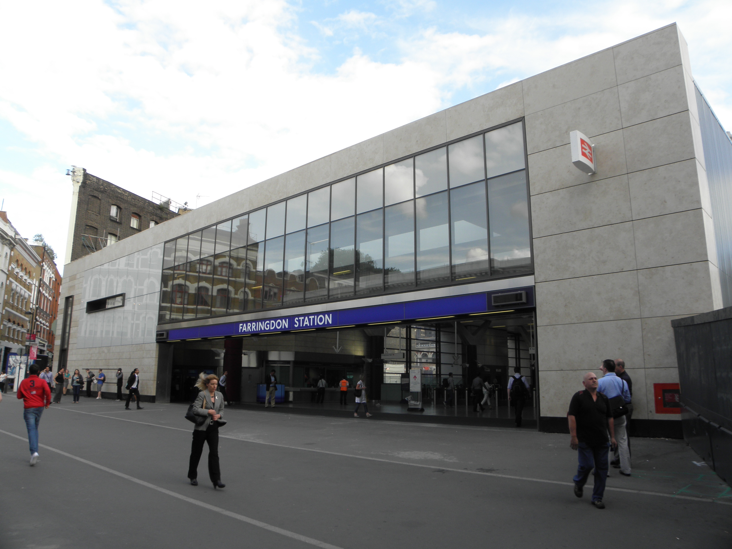 Farringdon station new building in 2012, soon after opening. It is directly opposite the original building. Both buildings afford access to the main line platforms (Thameslink) and Tube platforms, though the new building has more direct access to the main line platforms and only indirect access to the Tube.